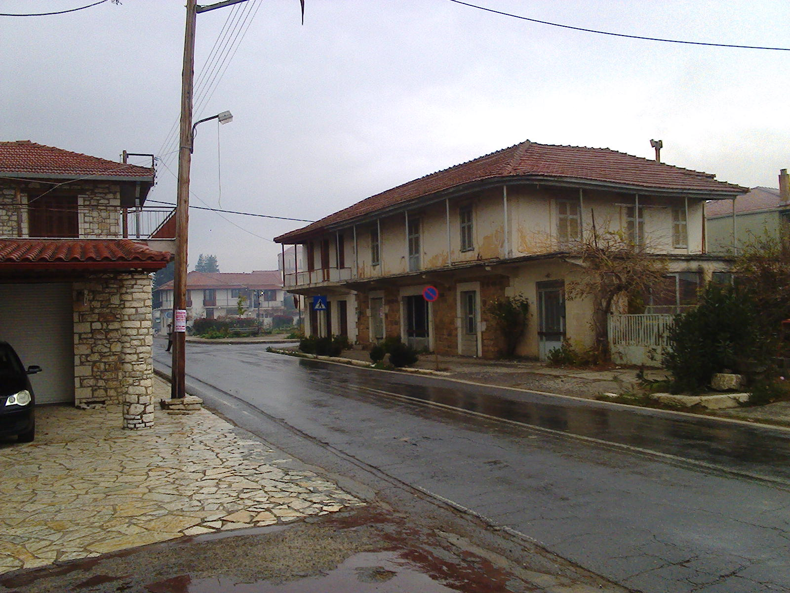 A street view of Kerasitsa in Arcadia, Greece